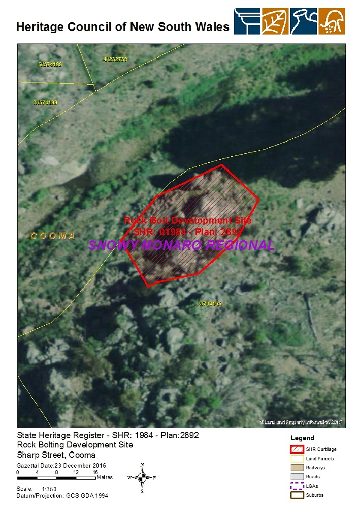 Rock Bolting Development Site: SHR Plan No 2892